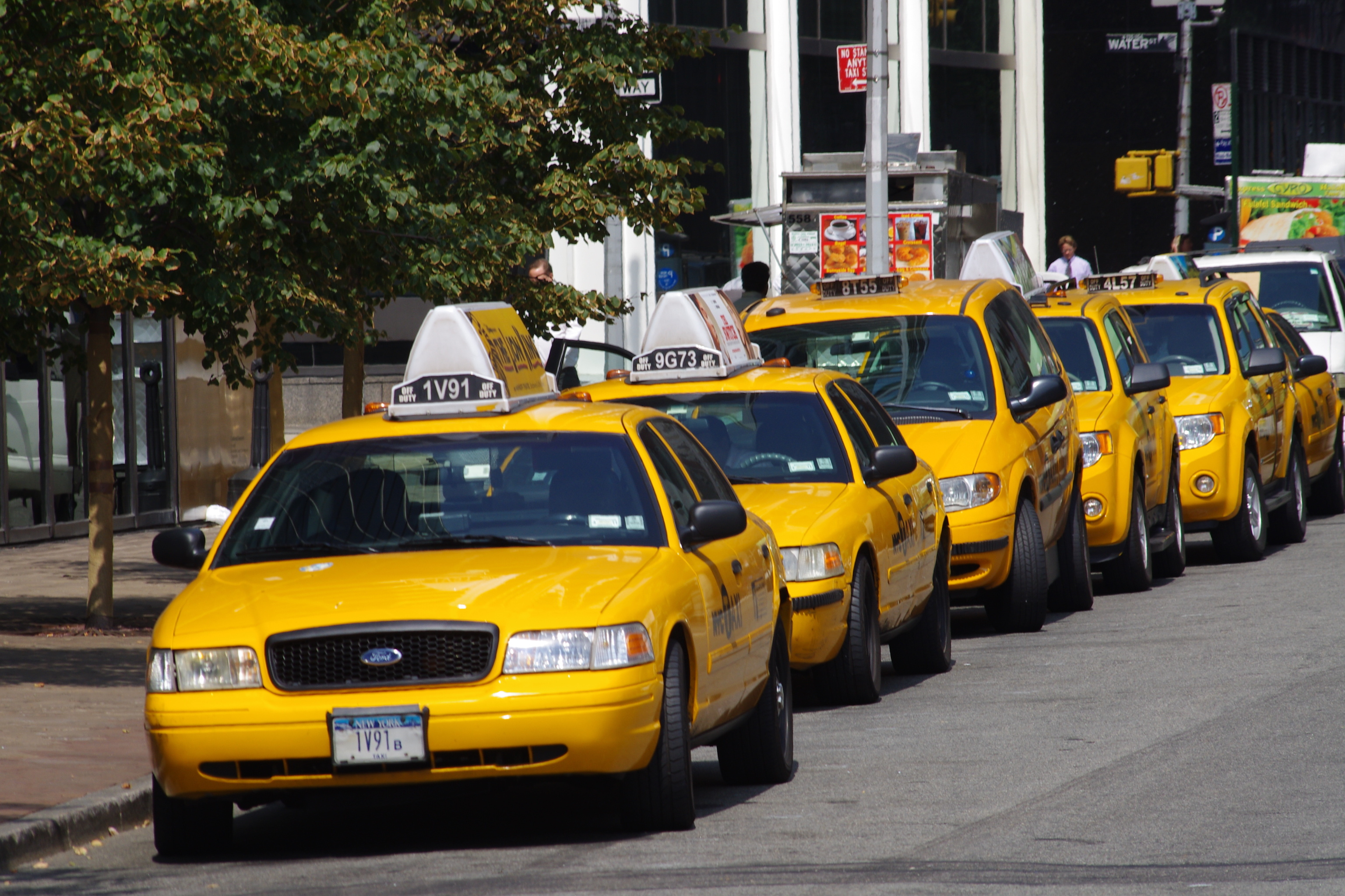 Yellow cabs in Downtown Manhatten